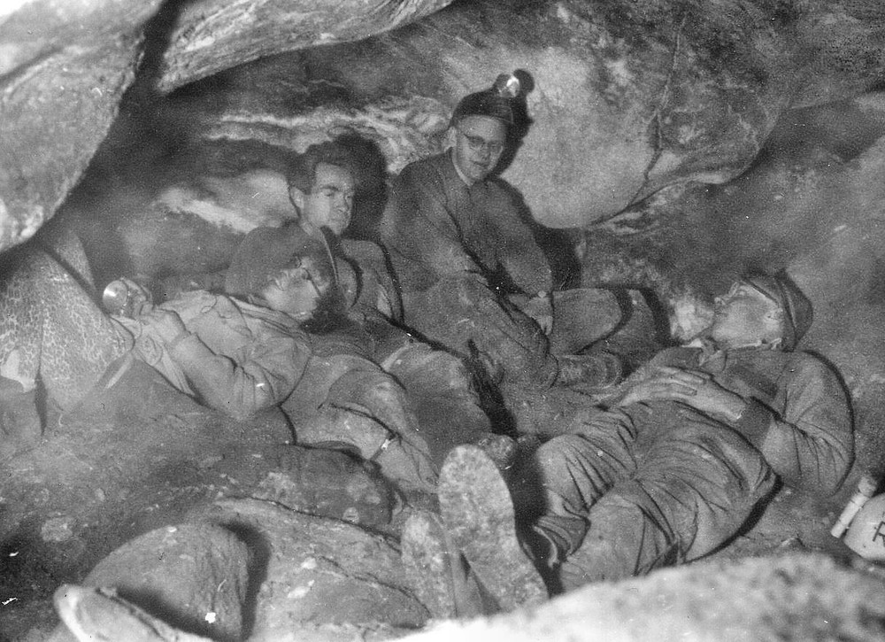 Jan and Herb Conn, Dave Schnute and Dwight Deal In Jewel Cave on their second trip into the cave.